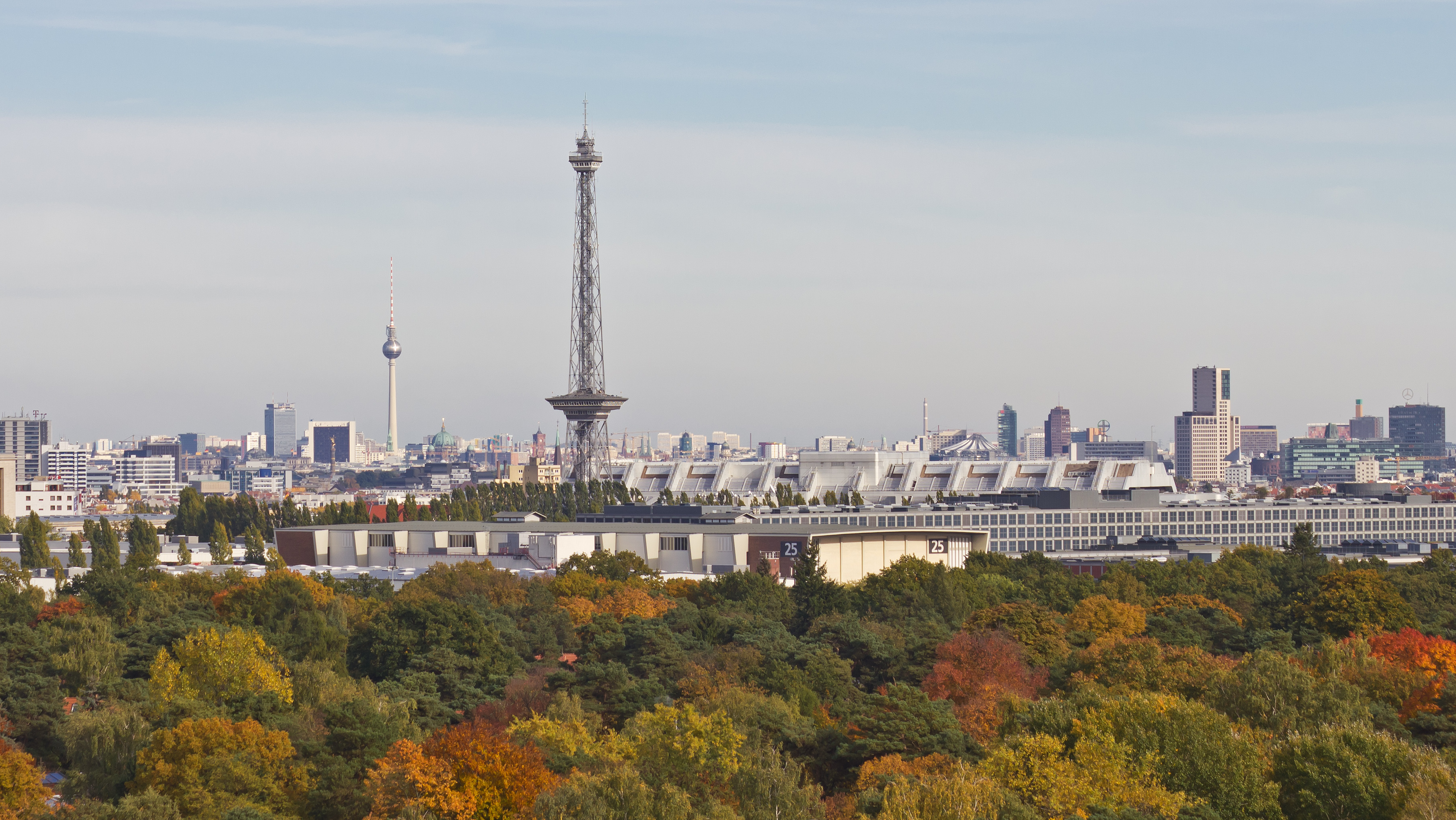 View from Grunewald hill, Berlin, Germany